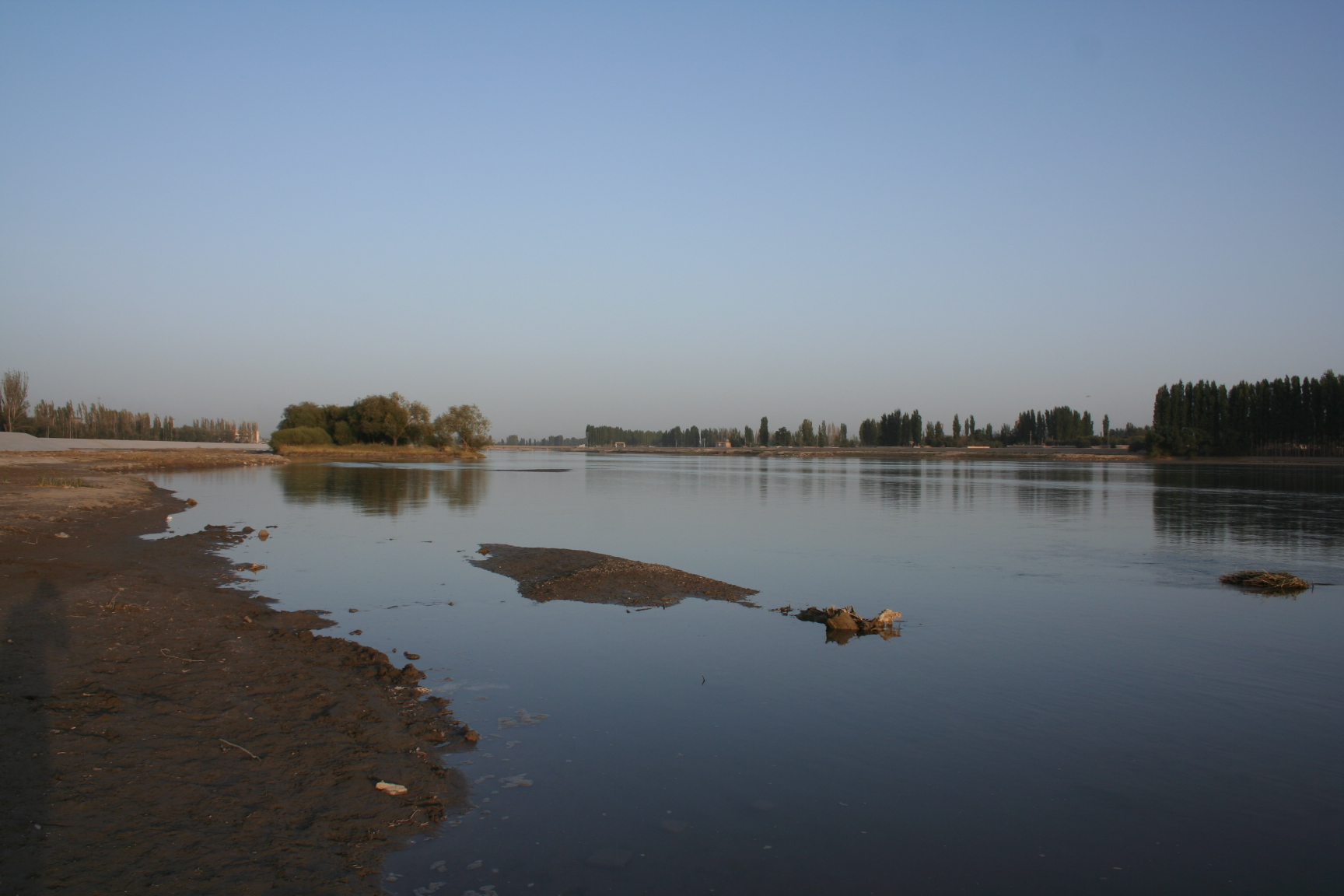 Kaidu River (开都河), ancient name Liusha River (流沙河), in the city center of Yanqi, Xinjiang Uyghur Autonomous Region, China